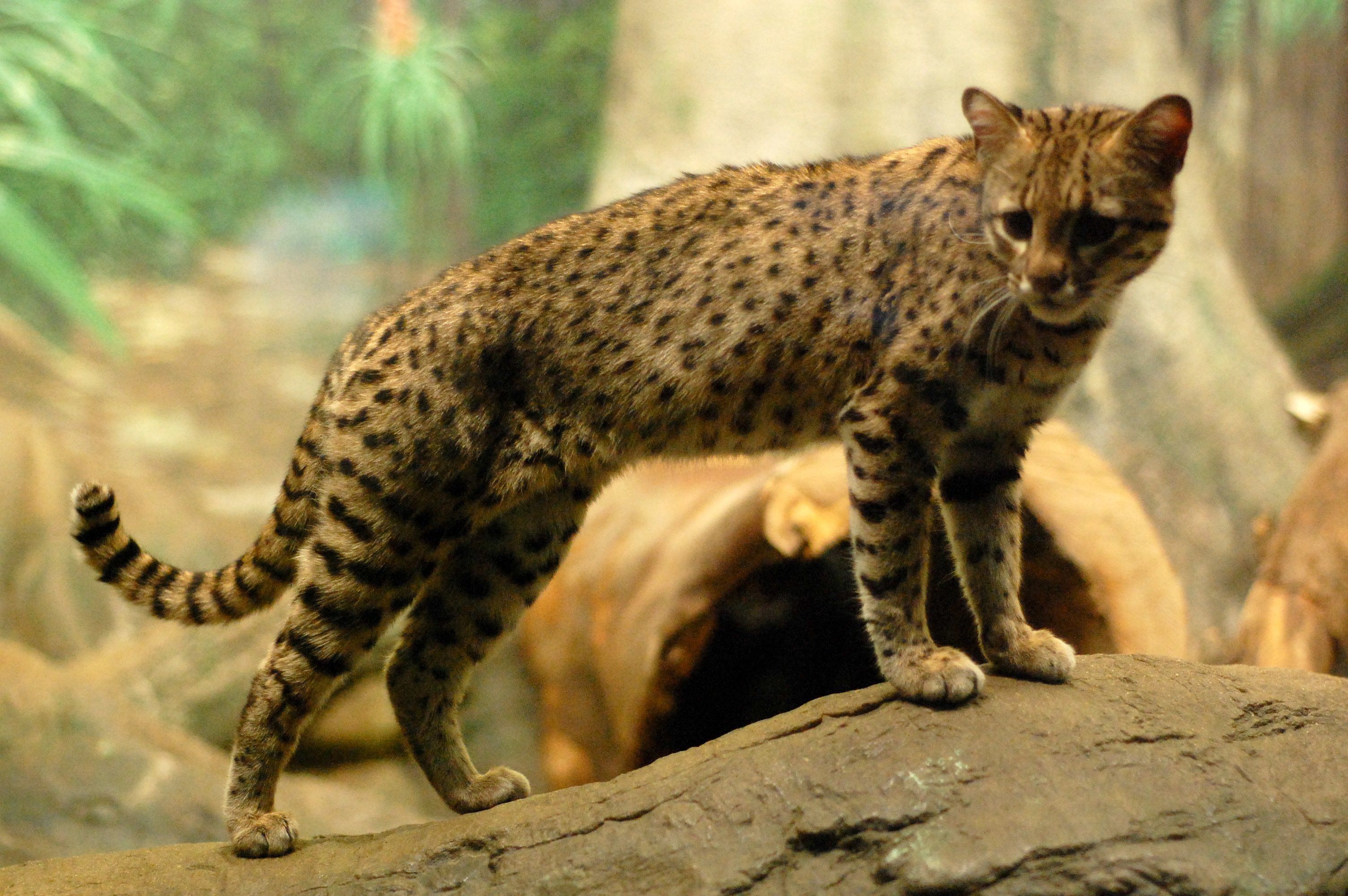 Next door to the fishing cat family, he was trying to foster his own fan base.